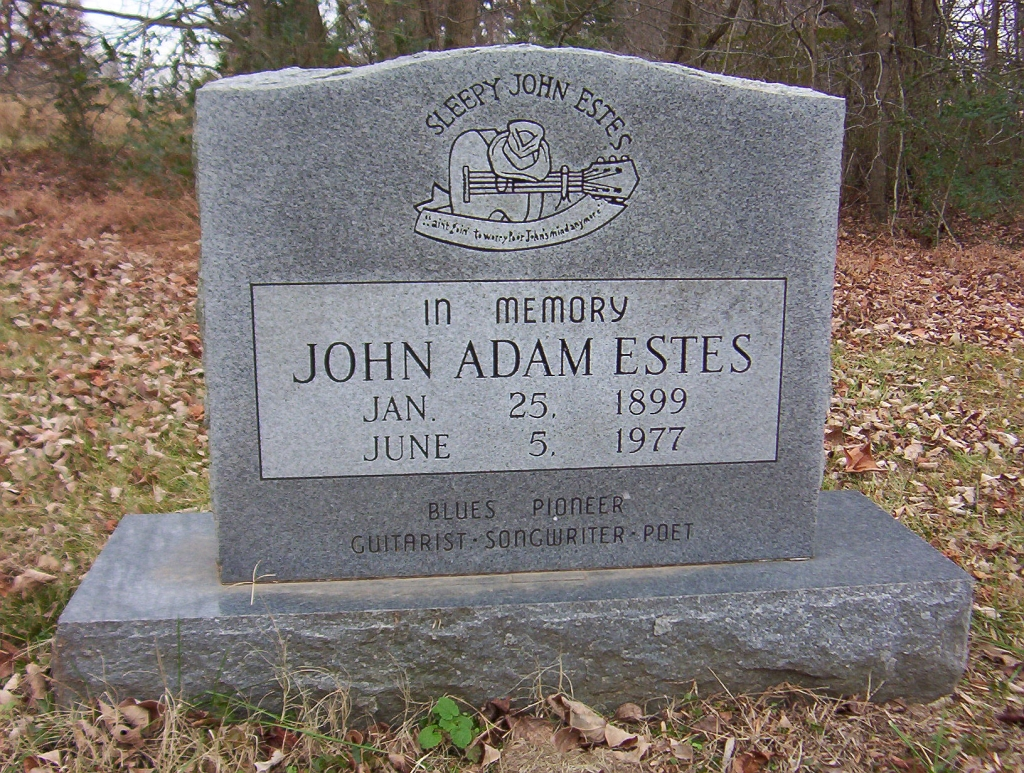 Grave marker of Sleepy John Estes (closer view) in the Elam Baptist Church Cemetery in Durhamville, Lauderdale County, Tennessee.